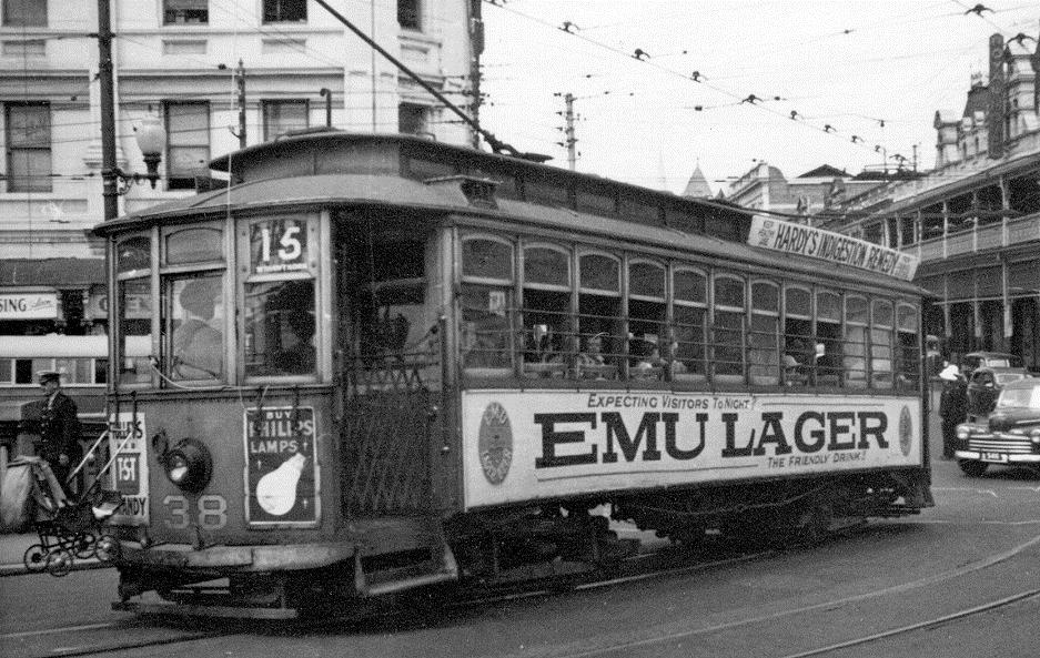 A rear three-quarter view of Perth tram 38 on the Horseshoe Bridge over the Perth railway station, Perth, Western Australia. No 38 is at the southern edge of the bridge; it will shortly cross over Wellington Street and then head further south, down William Street. Note the pram hanging off the pram hooks at no 38's rear.